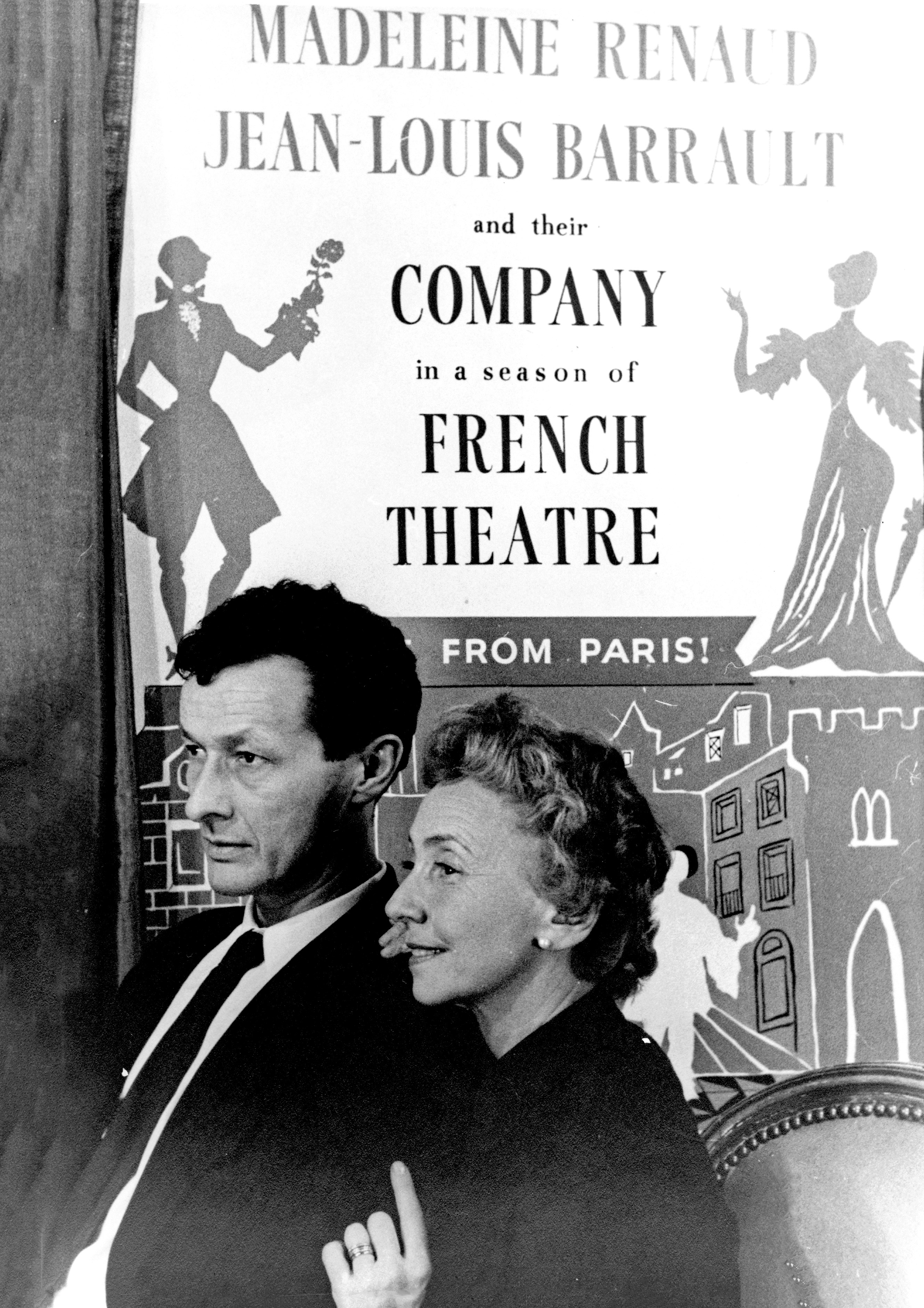 Portrait of Jean-Louis Barrault, and Madeleine Renaud